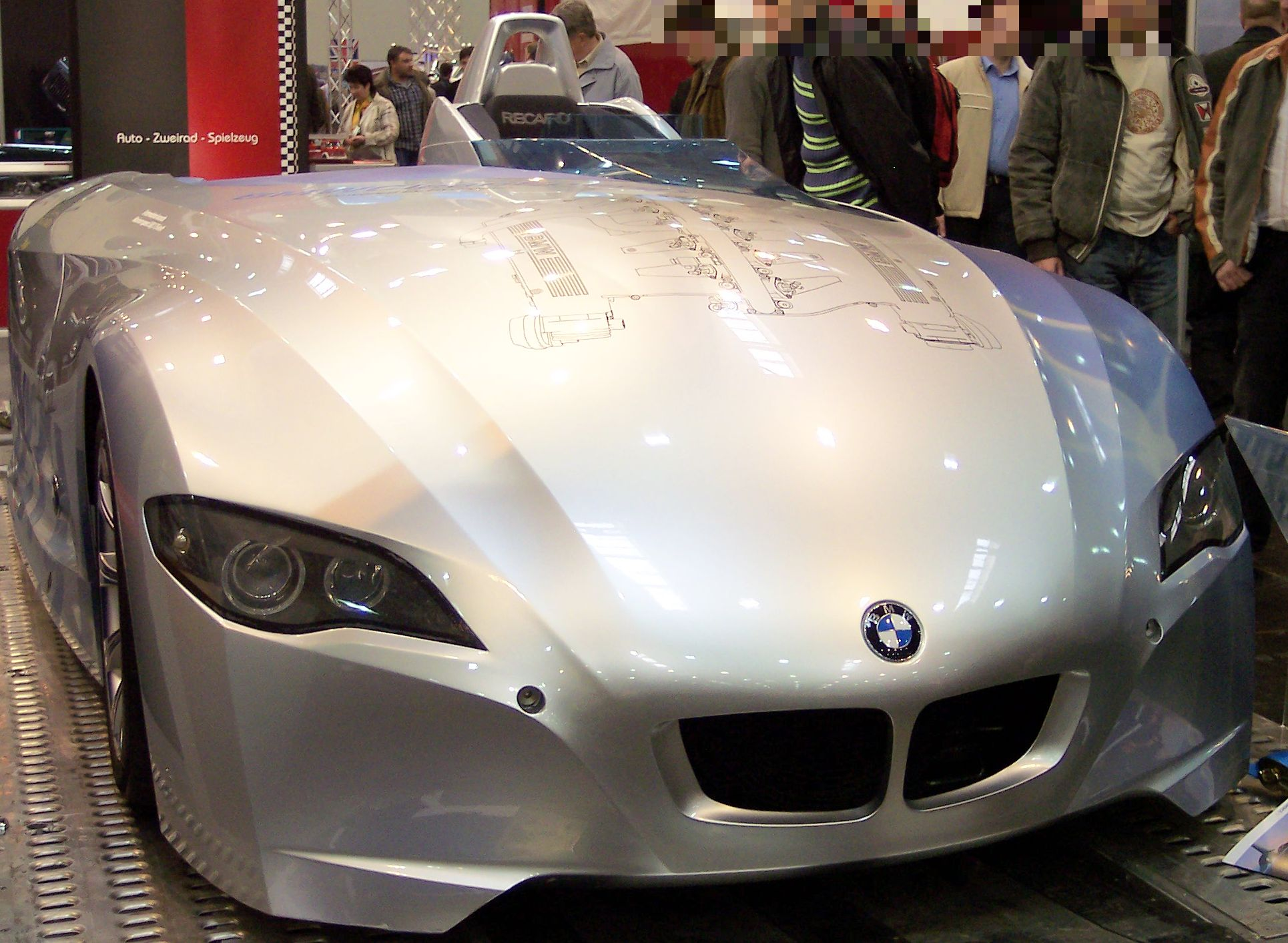 Essen Techno-Classica 2007, BMW H2R concept car